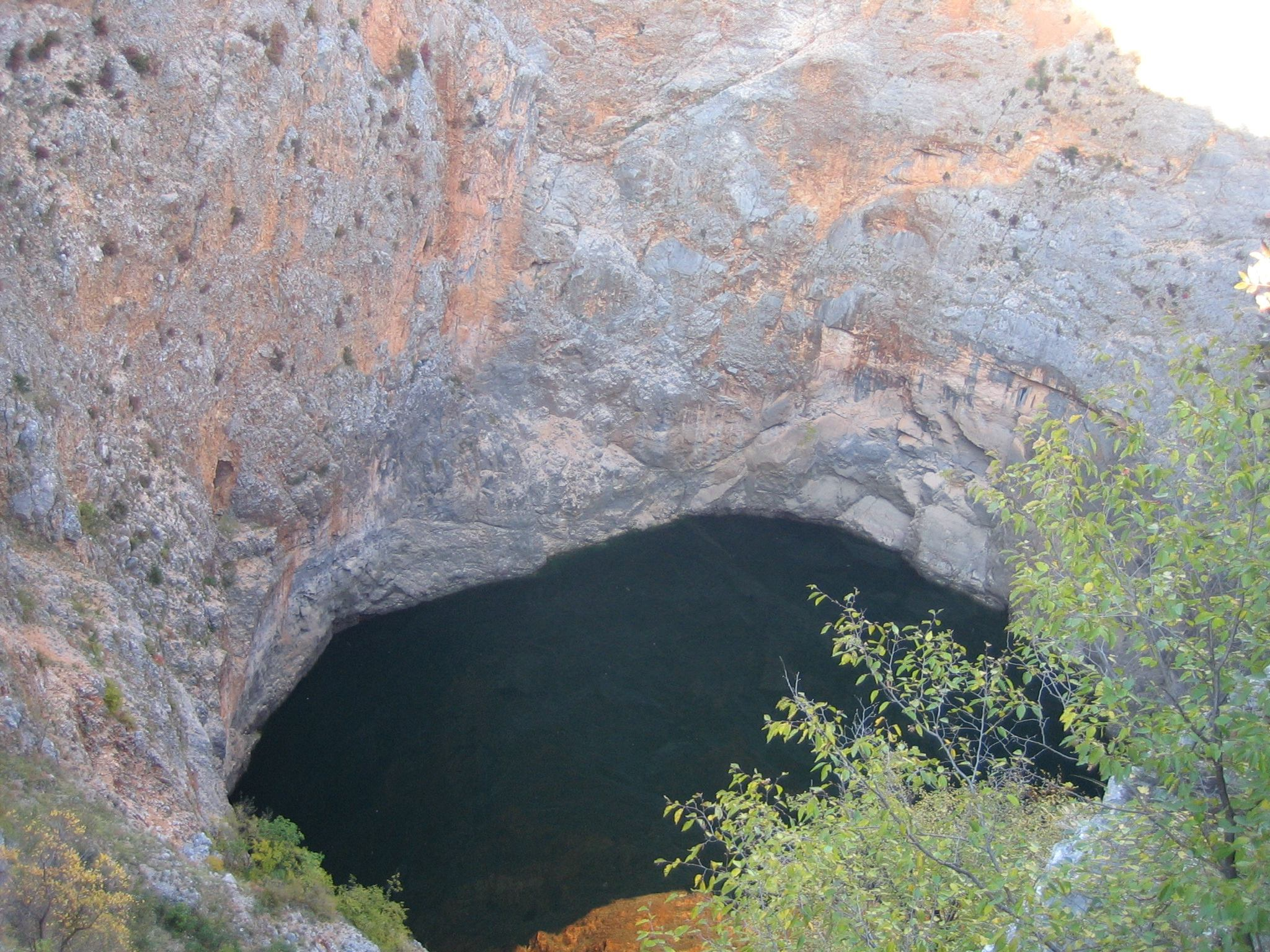 Crveno Jezero. A cenote / karst lake, reflecting the karst's water table, near Imotski, Croatia.